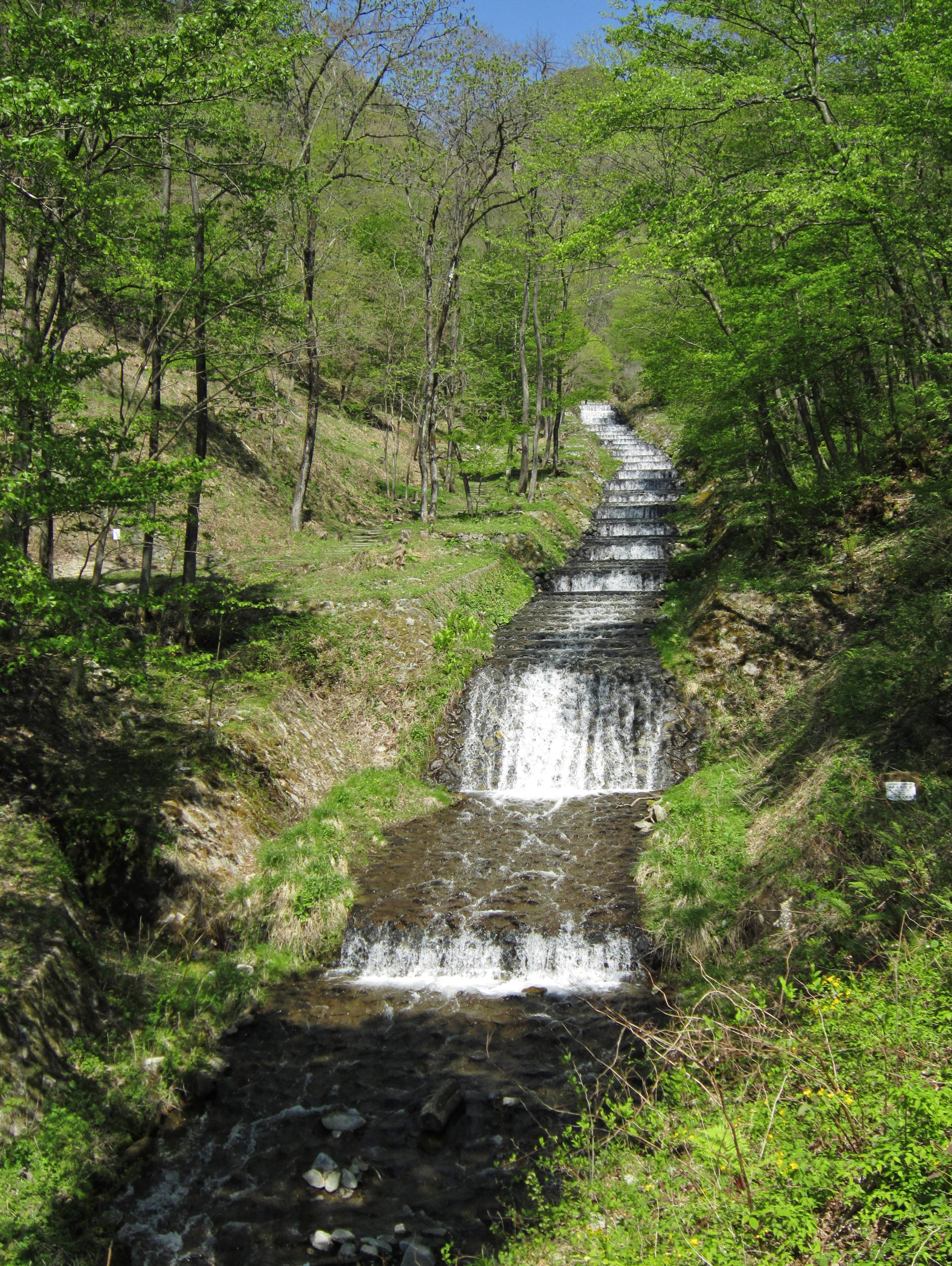 Ushibuse River French style stair-stepped channel works.